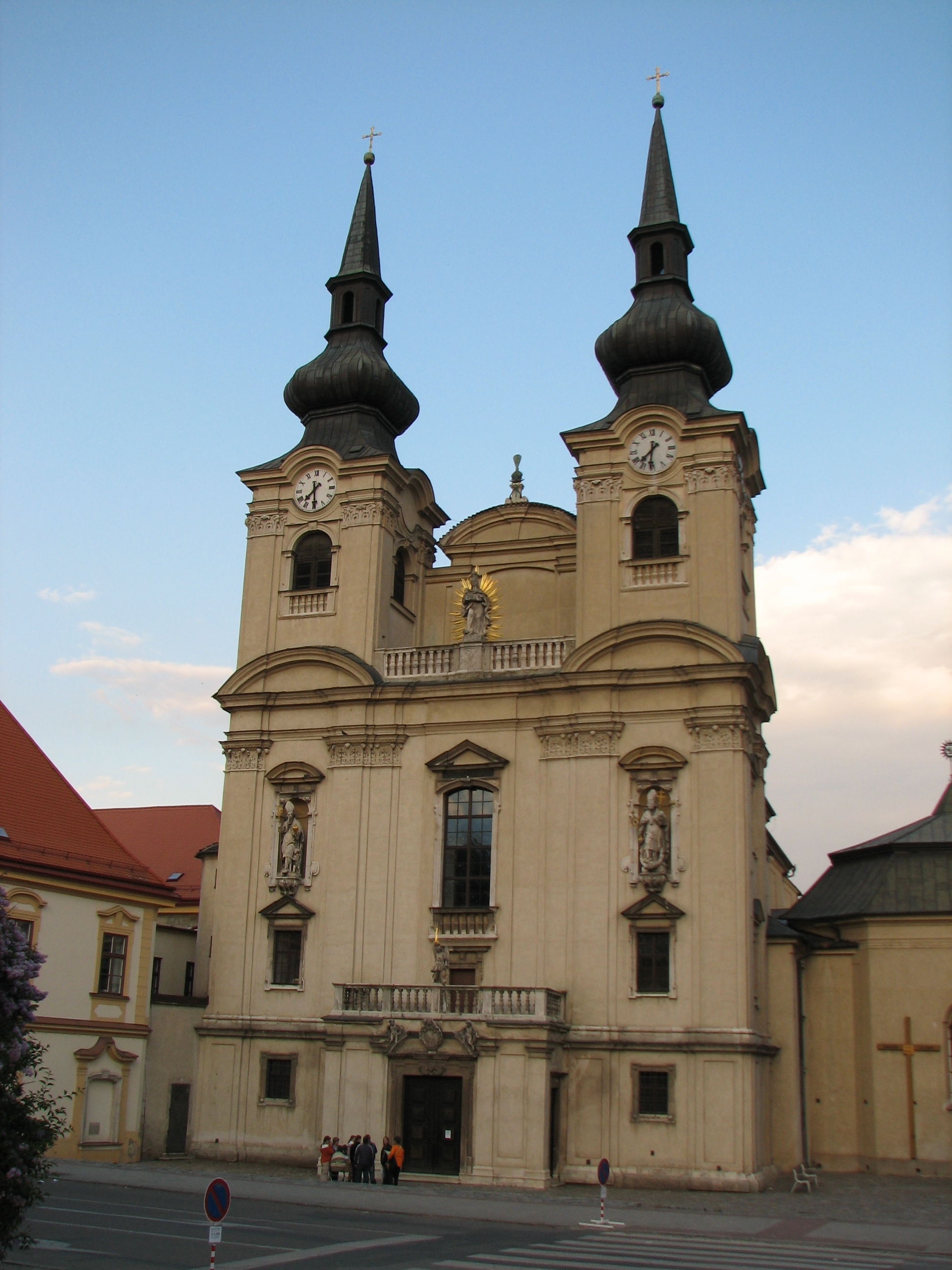 Assumption of Virgin Mary Church in Brno-Zábrdovice